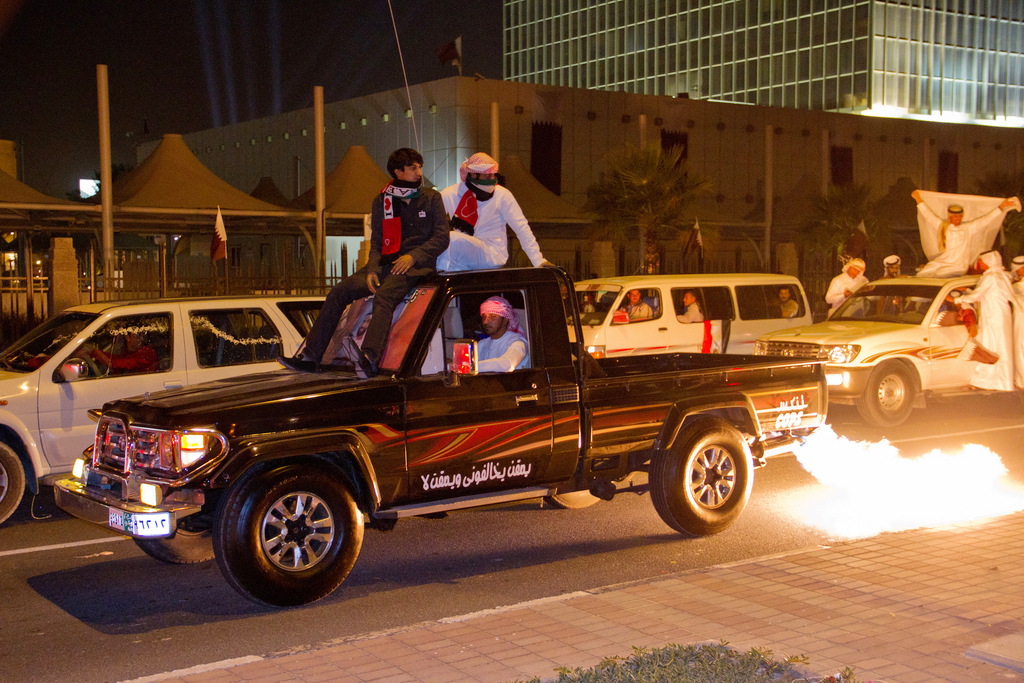 Emirati expatriates celebrate during Qatar National Day.